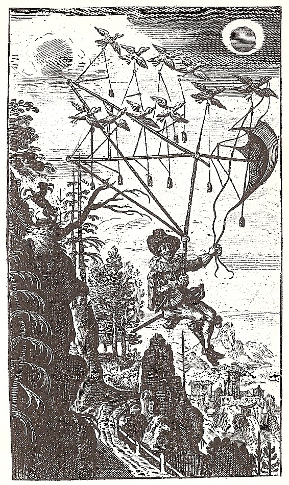 Frontispiece of the 1659 edition of Der Fliegende Wandersmann nach dem Mond, a German translation of Bishop Godwin's The Man in the Moone